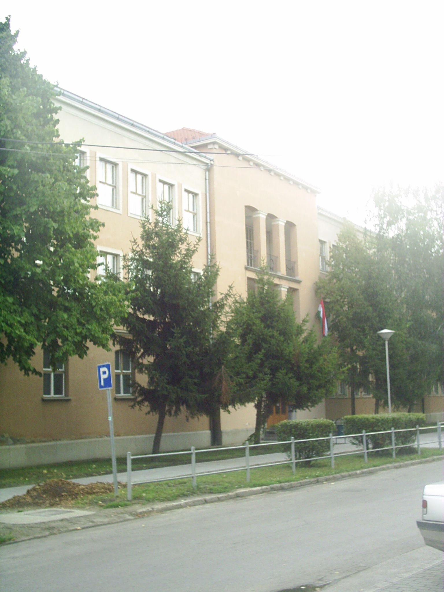 József Attila Primary School, Kiskunfélegyháza, Deák Ferenc street.